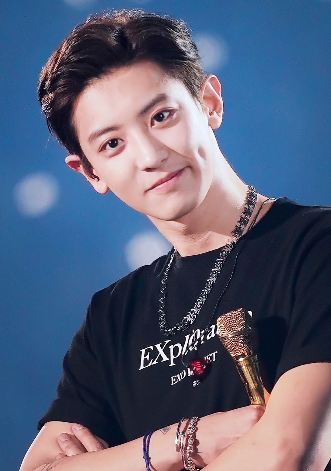 Chanyeol during the Exo Planet 5 – Exploration concert on December 2019.